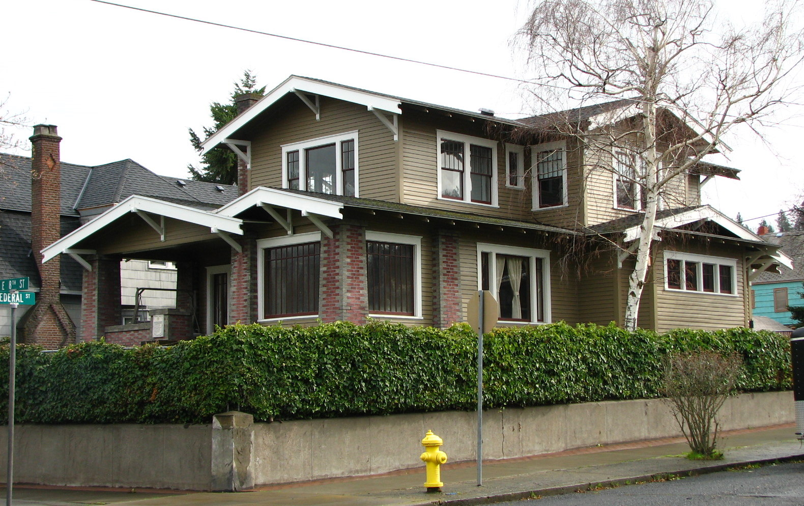 The historic John and Murta Van Dellen House (built 1920), located at 400 East 8th Street in The Dalles, Oregon, United States, is listed on the US National Register of Historic Places.